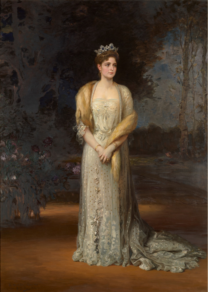 Portrait of Empress Alexandra Fyodorovna